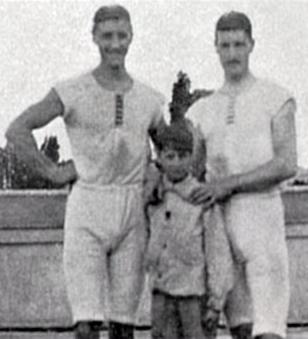 The Dutch rowing coxed pair and Olympic champions François Brandt and Roelof Klein with the unknown French Boy who steered the boat for the finals.